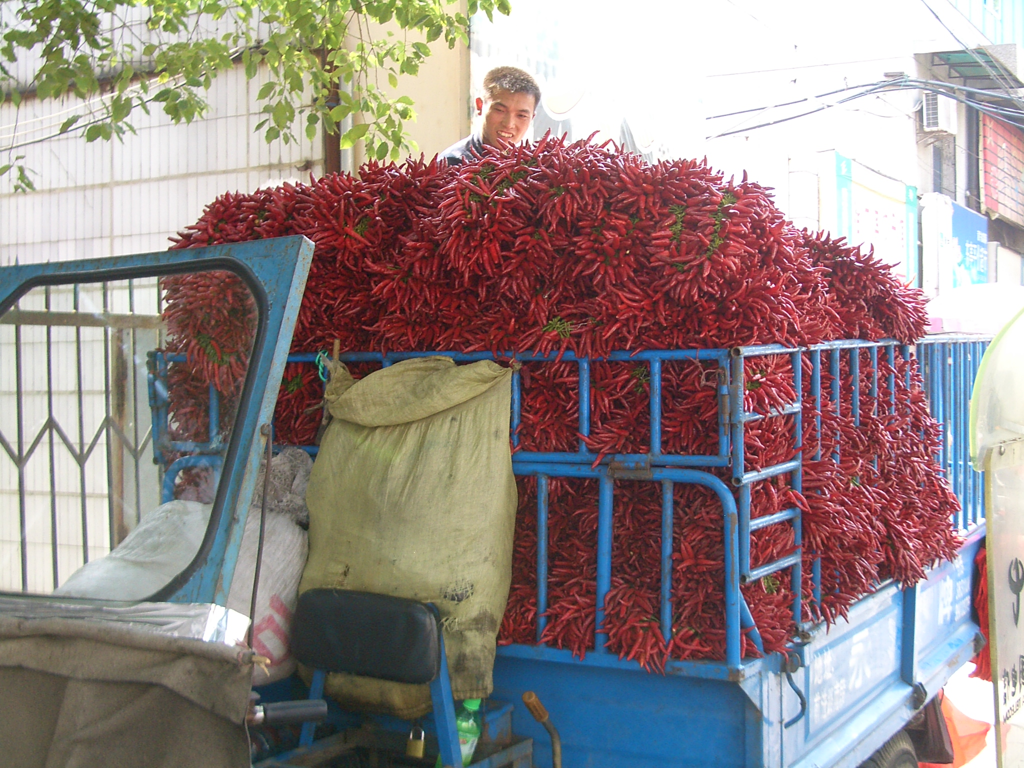 Red hot chilli peppers sold from a truck on a residential street in Wuhan (Huangli Lu, off Donghu Lu in Wuchang district) at 5 yuan / jin (i.e. 10 yuan/kg).